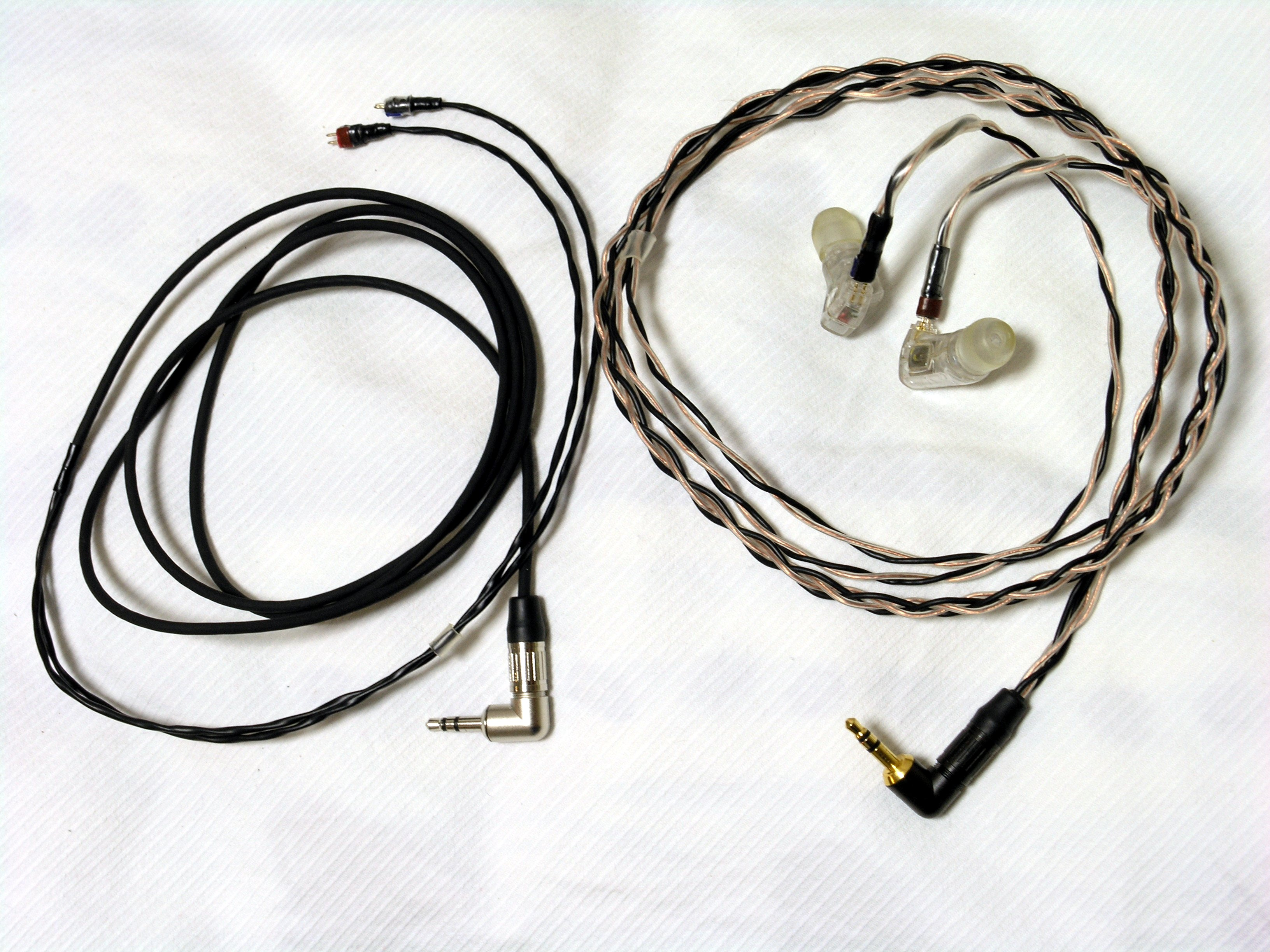 Self-made Recables for Ultimate Ears canalphones 10pro / 5pro / 5EB / 3stu.